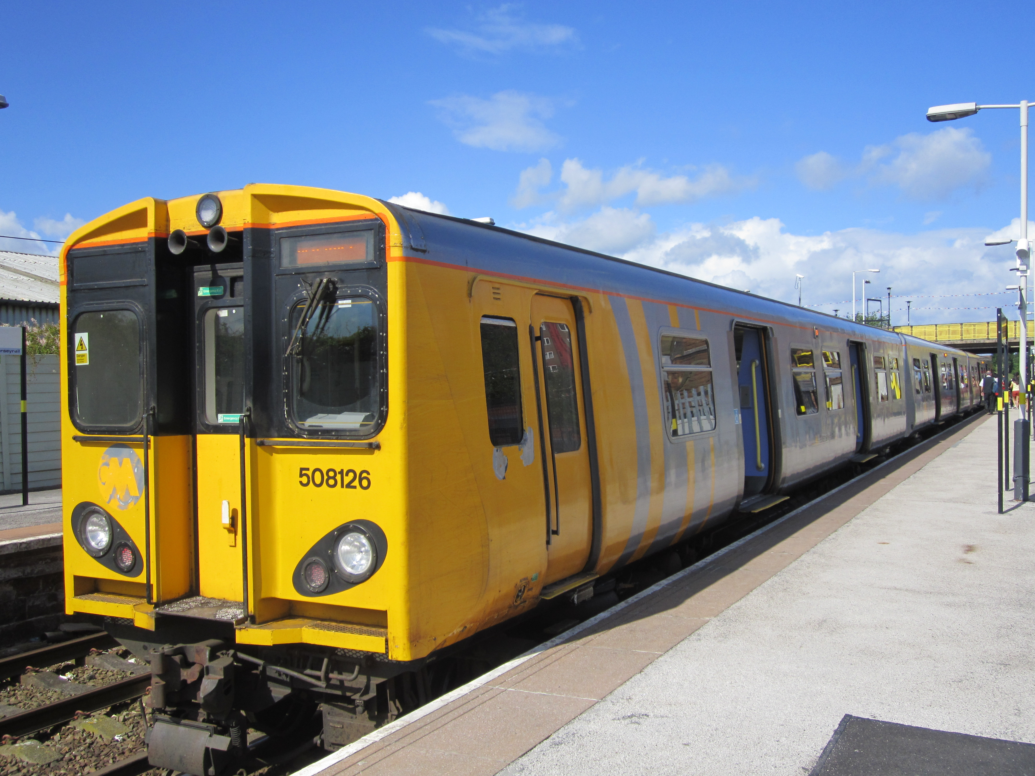 Photo taken at Ellesmere Port railway station, Cheshire, England.